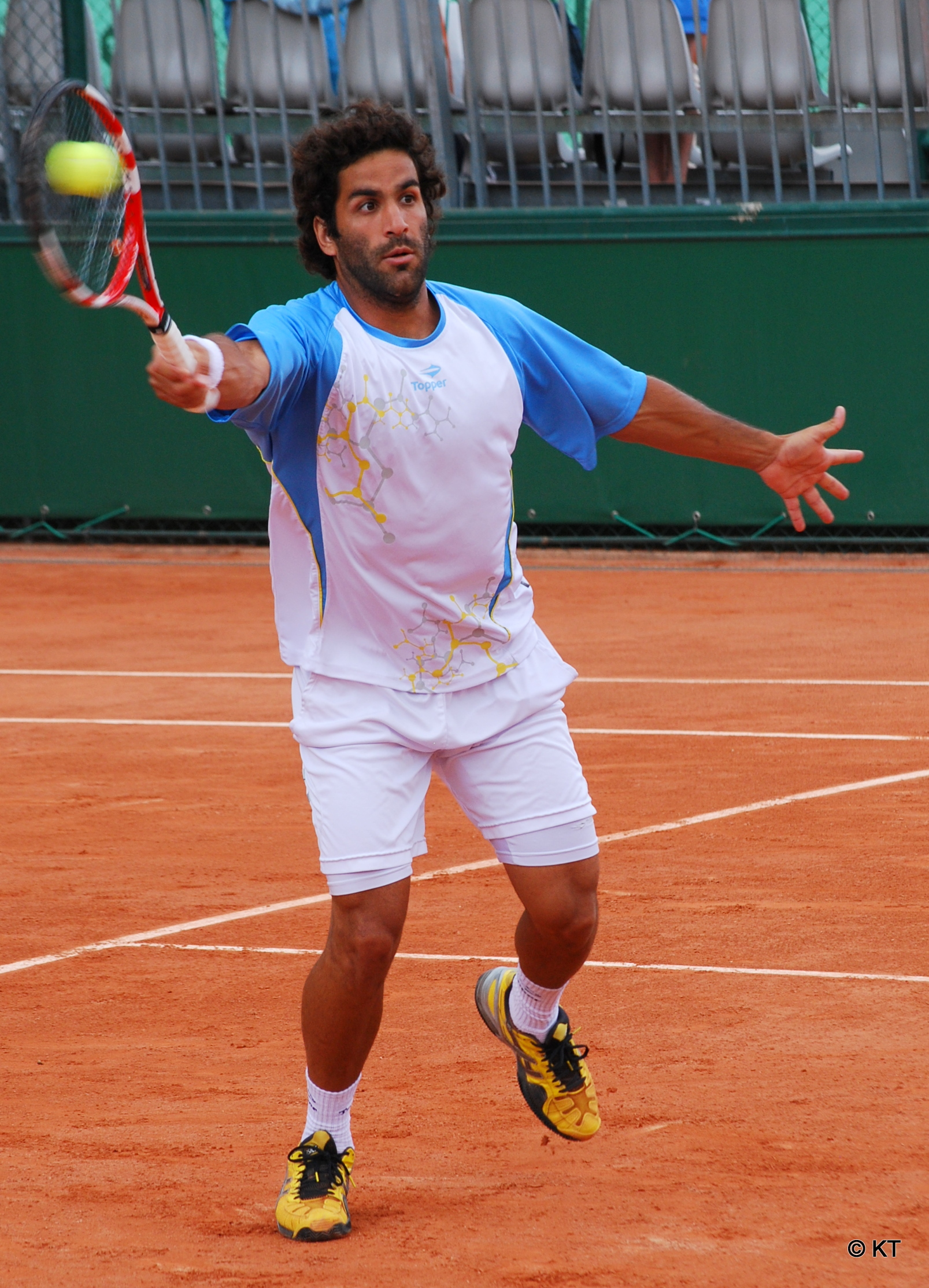 Maximo Gonzalez during his 1st round match with Kei Nishikori. against Pablo Cuevas & Lukas Dlouhy, Roland Garros 2011.